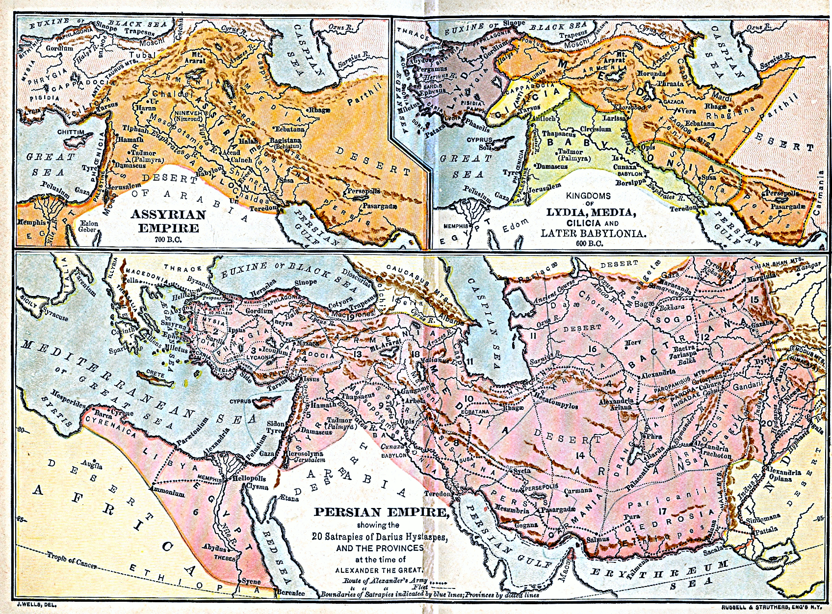 Three ancient maps, public domain, scanned by WMF intern Mitch Hoffman